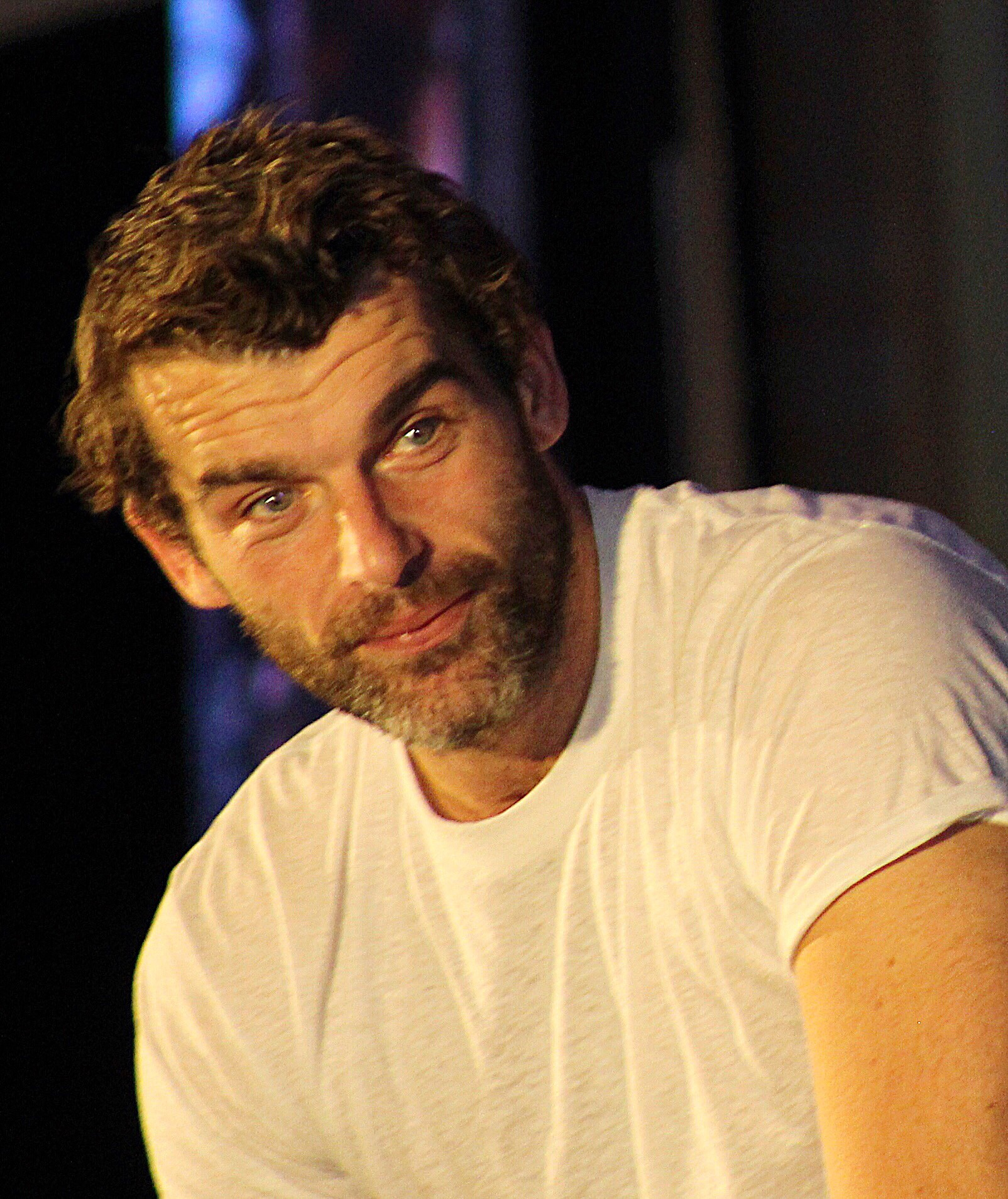 Stanley Weber at the 2018 Creation Outlander Convention Las Vegas, Nevada (USA).